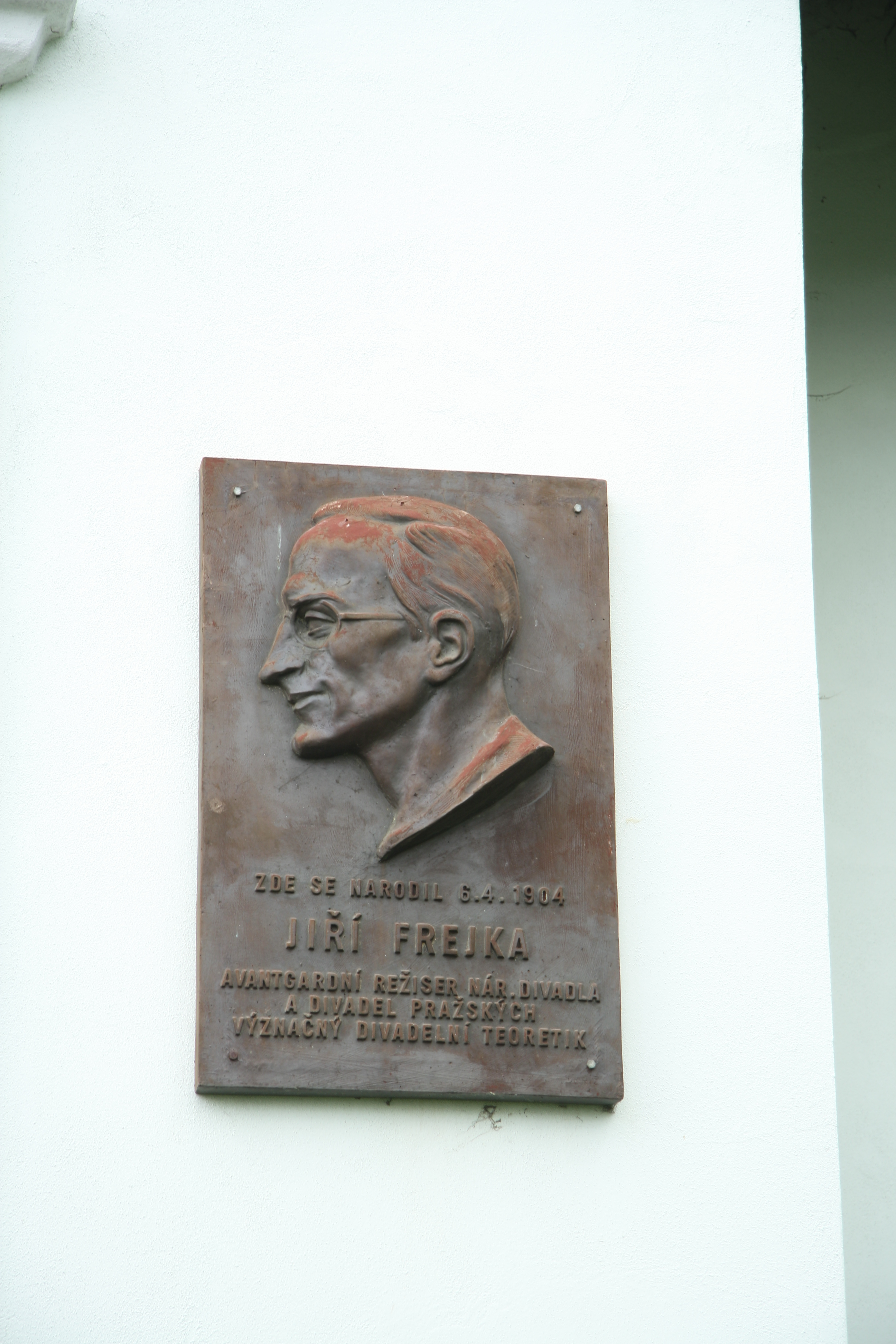 Plaque of Jiří Frejka native house in Útěchovice pod Stražištěm, Pelhřimov District.